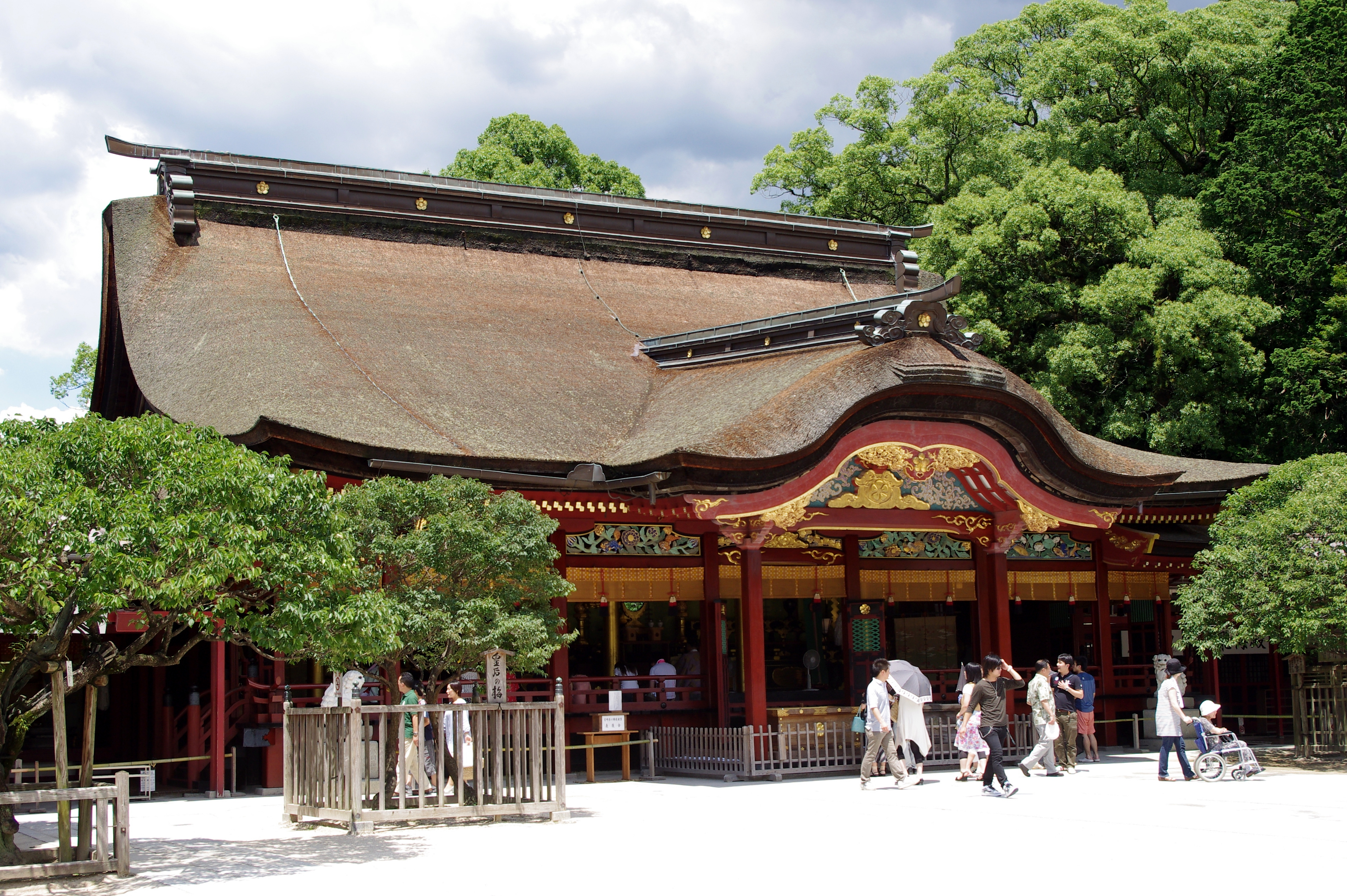 Dazaifu Tenmangu Shrine